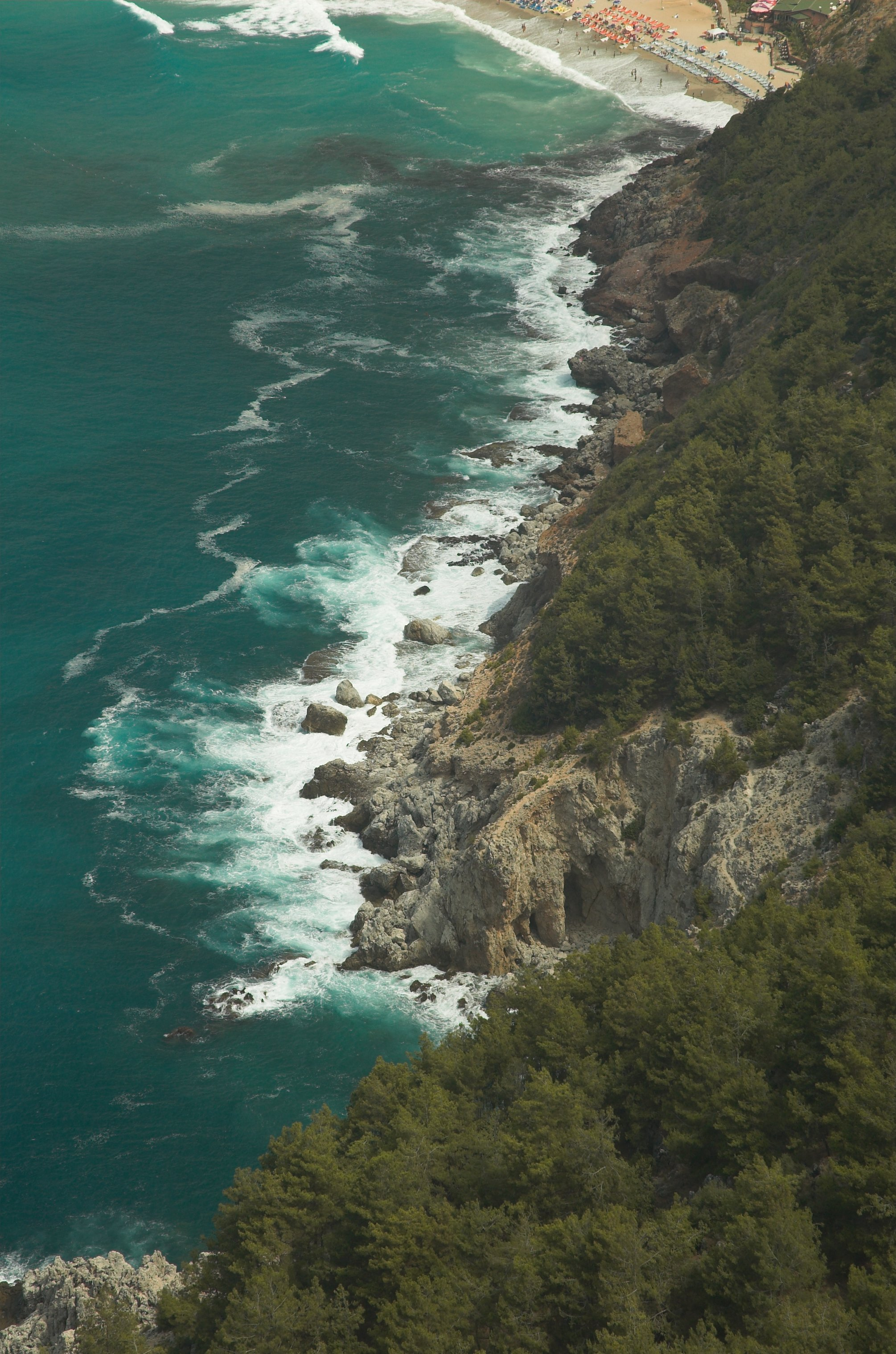 Shot almost downwards to the turquoise sea breaking off against the cliffs